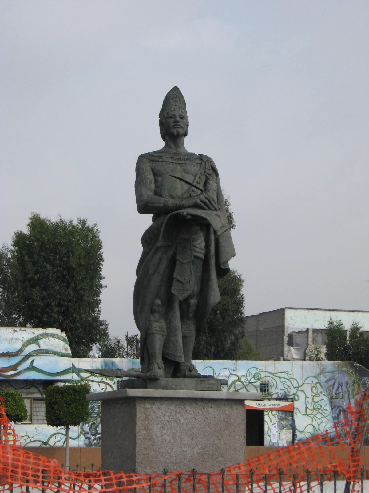 Close up of statue of Nezahualcoyotl, a Mexica tlatloni (chief), as placed in the plaze in front of the Palacio Municipal (main government building) of Ciudad Nezahualcoyotl, Mexico, sculpted by Luis Sanguino